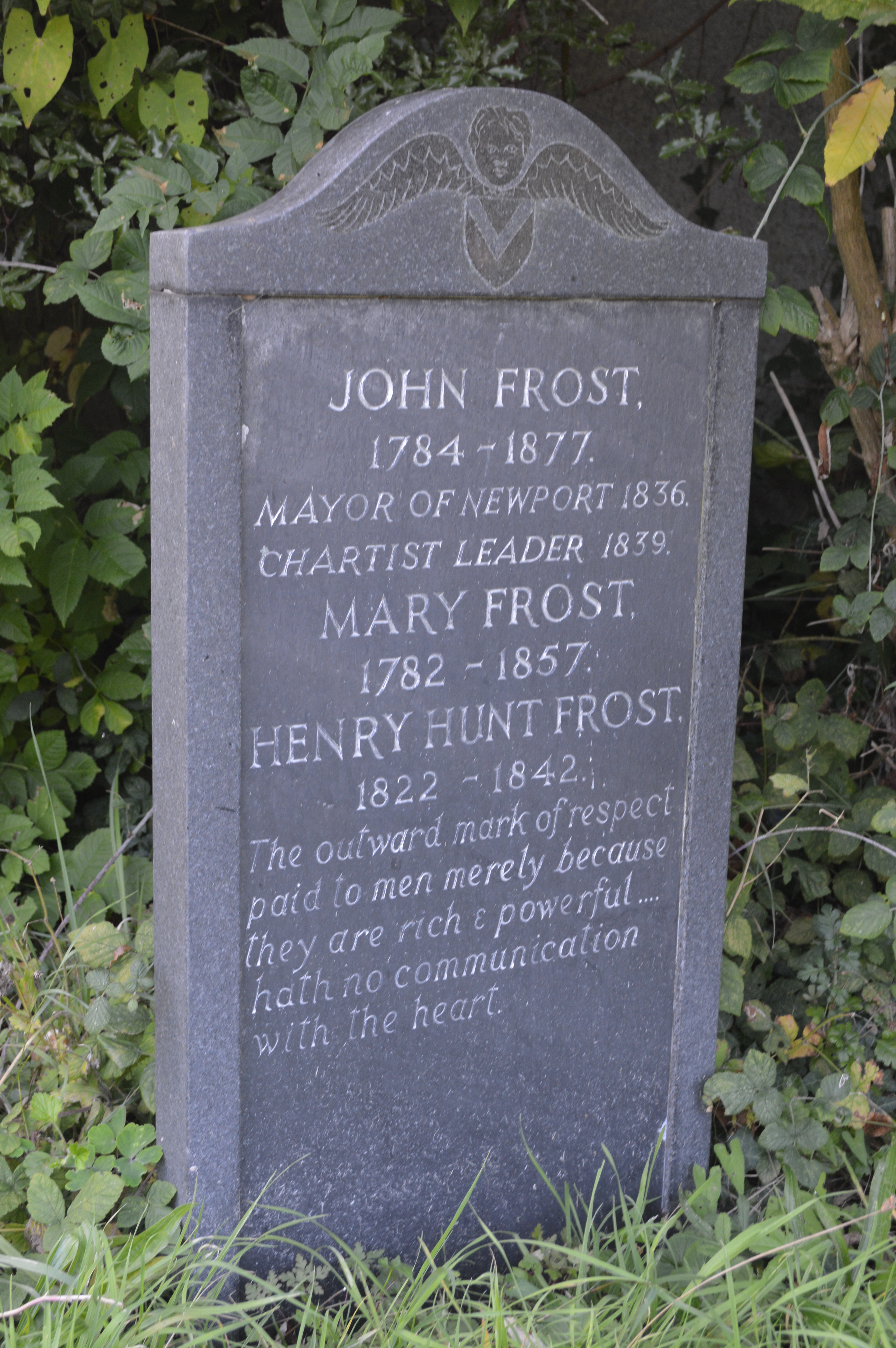 Chartist John Frost's new headstone, at Horfield Parish Church, Bristol, in 2014. Neil Kinnock unveiling this new replacement headstone in the 1980s.[1]